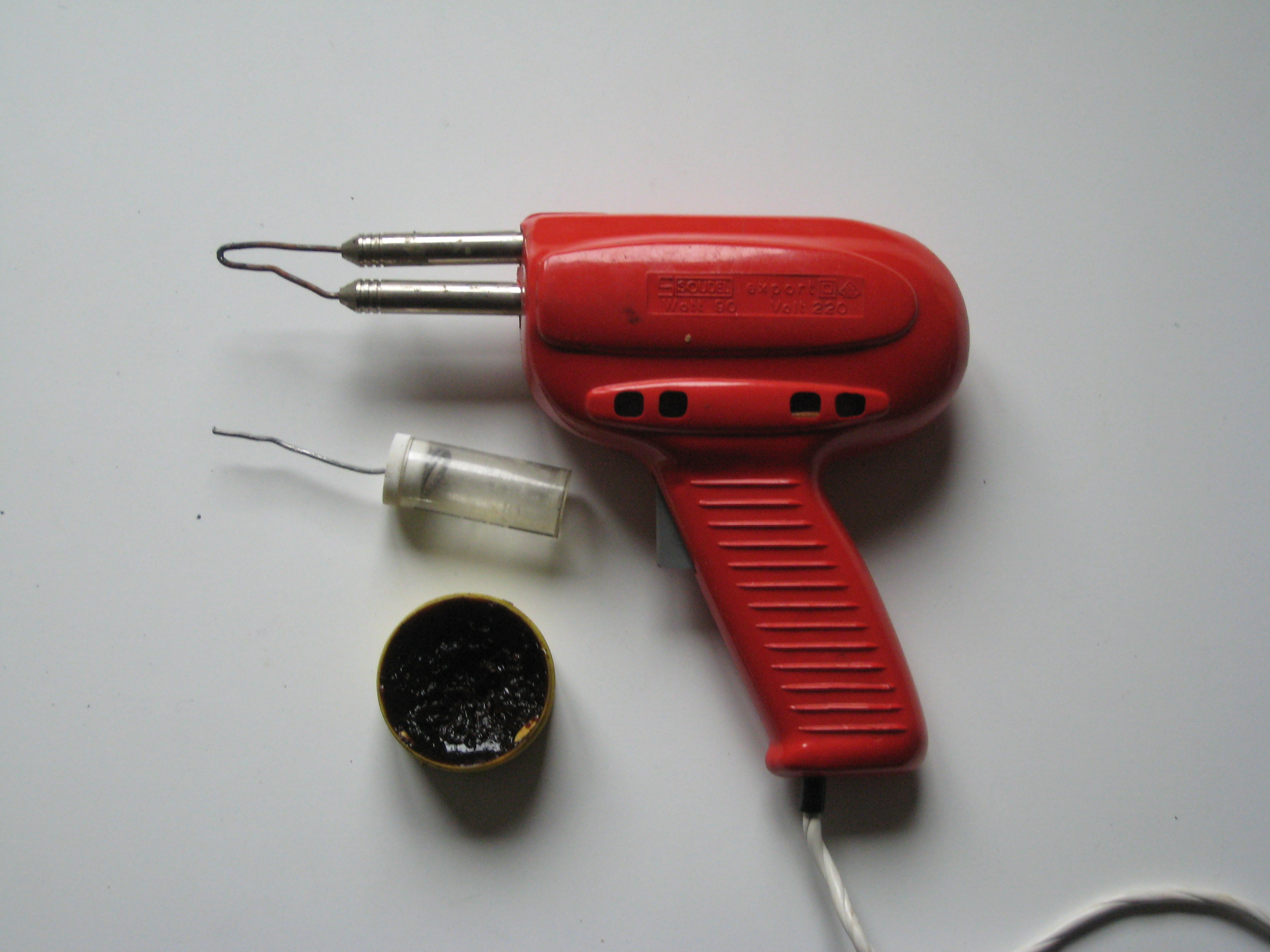 Soldering gun